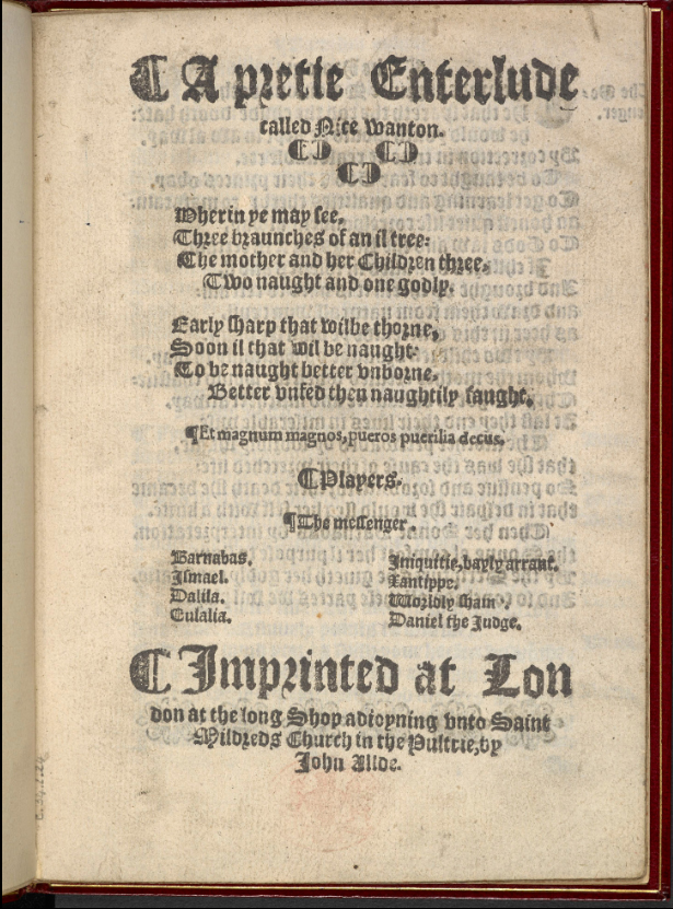 A pretie Enterlude called Nice Wanton, 1565, London. BL C.34.i.24.